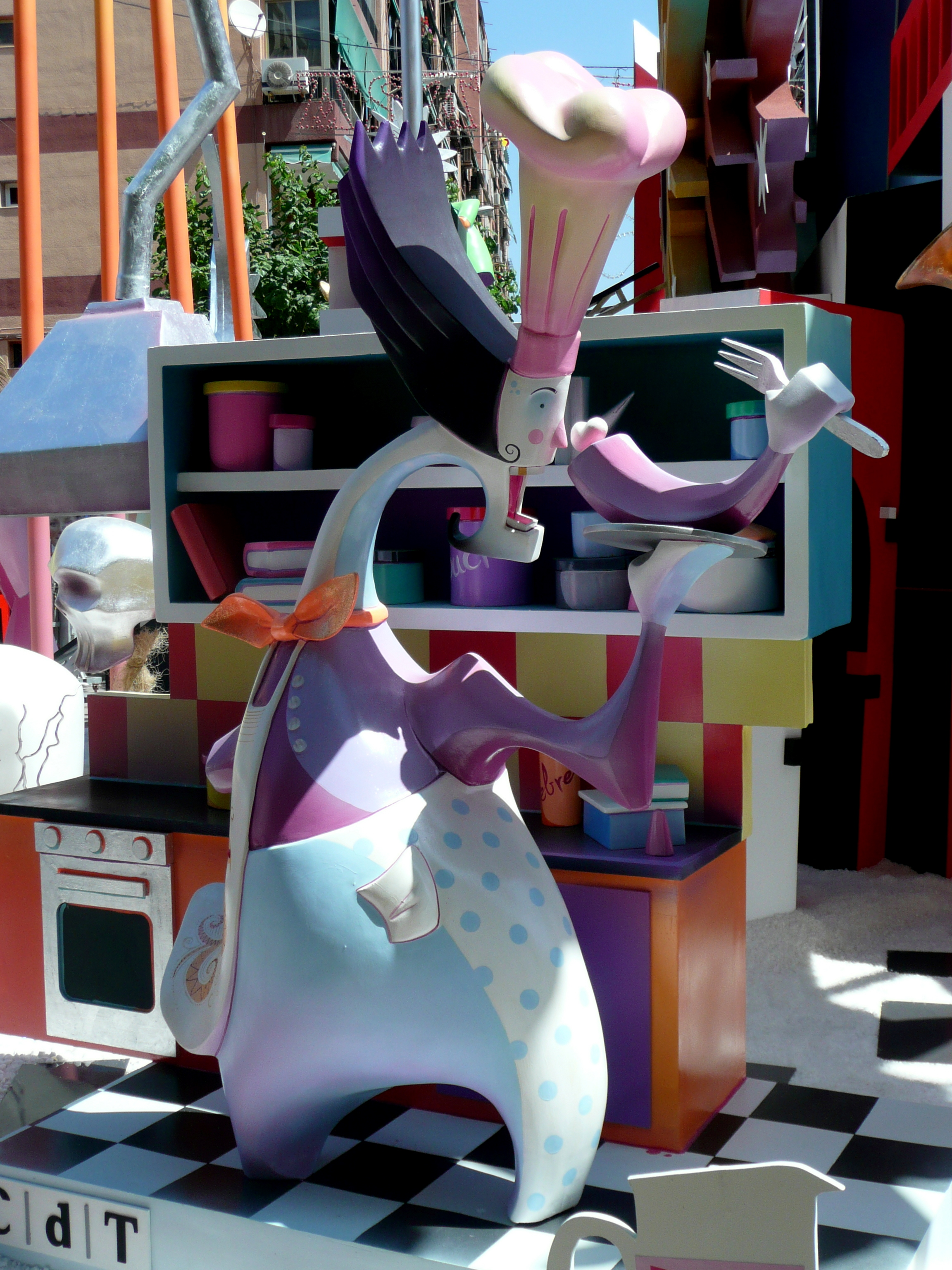 Hogueras 2009 Florida Portazgo Hogueras 2009 set by Fernando Pastor at Flickr